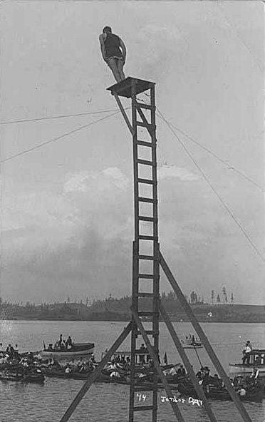 Charles Walker on high dive during Junior Day festivities, University of Washington, ca. 1915 Photographer: Unknown Subjects (LCSH): Walker, Charles University of Washington Digital Collection: University of Washington Campus Photographs Item Number: UWC1543 Persistent URL: Visit Special Collections page for information on ordering a copy. University of Washington Libraries. Digital Collections